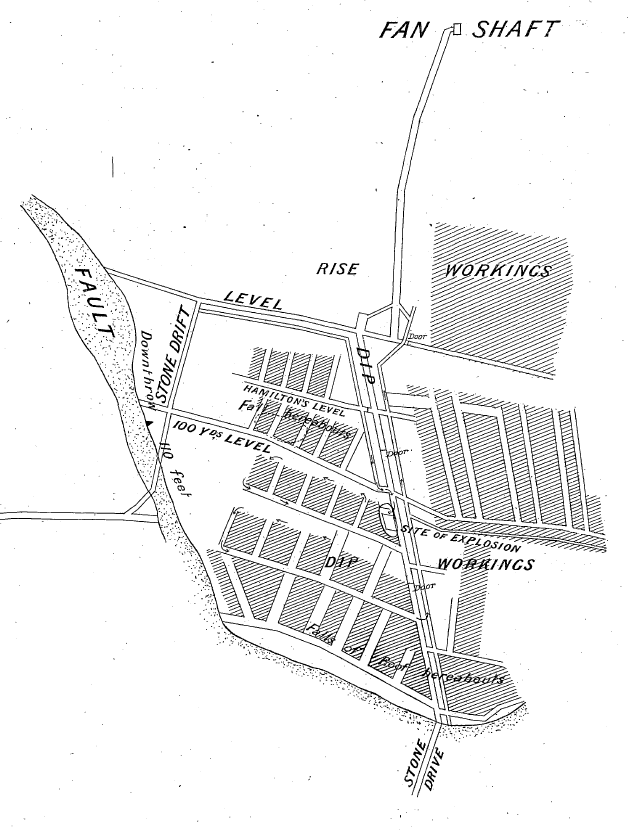 Plan of the Torbanlea mine, showing the site of the explosion of 21 March 1900, taken from the report of the royal commission into the disaster.